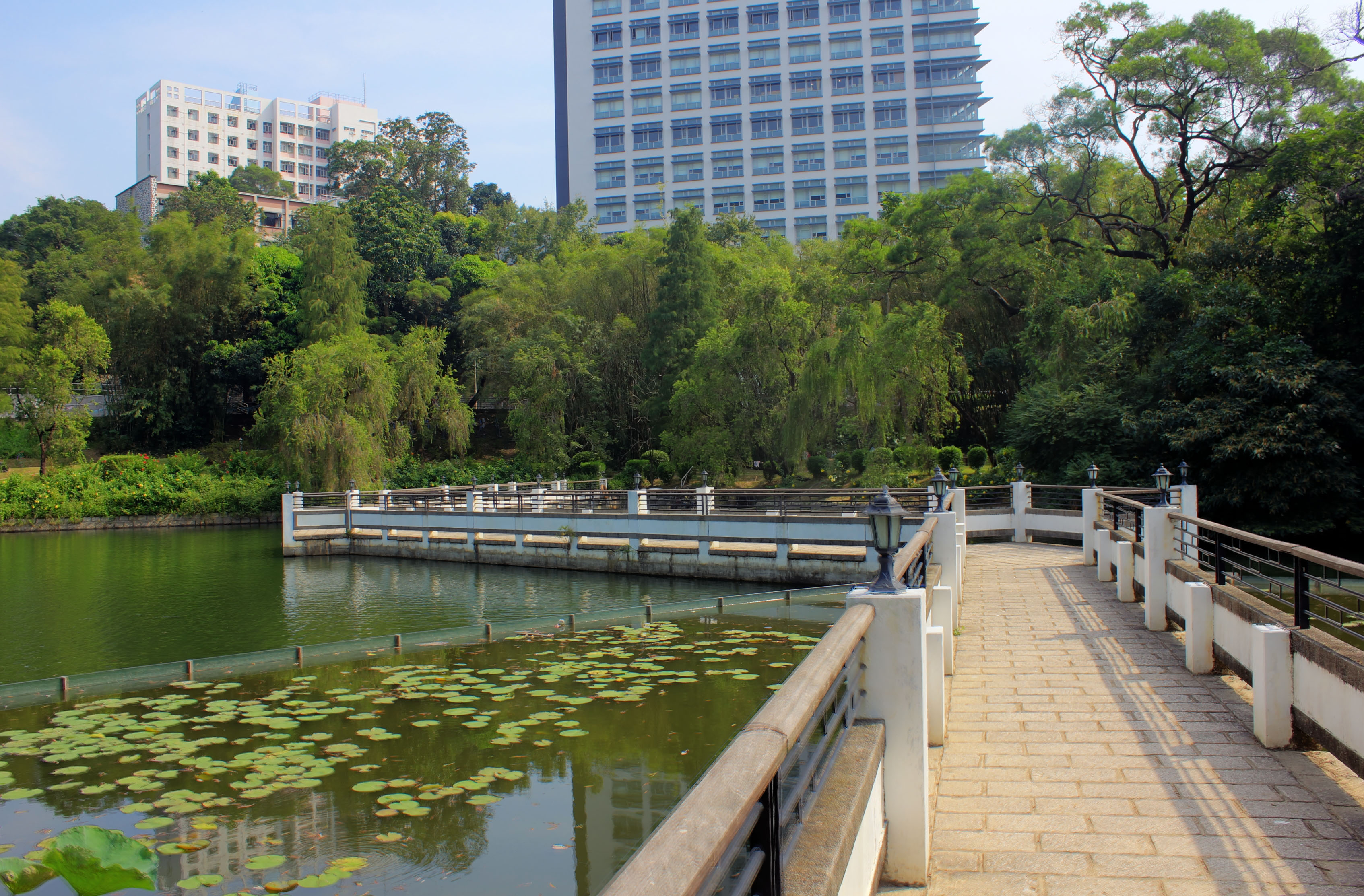 Pictures from Hong Kong, including the city, mountains, and the bay area. Walkway at Chinese University of Hong Kong